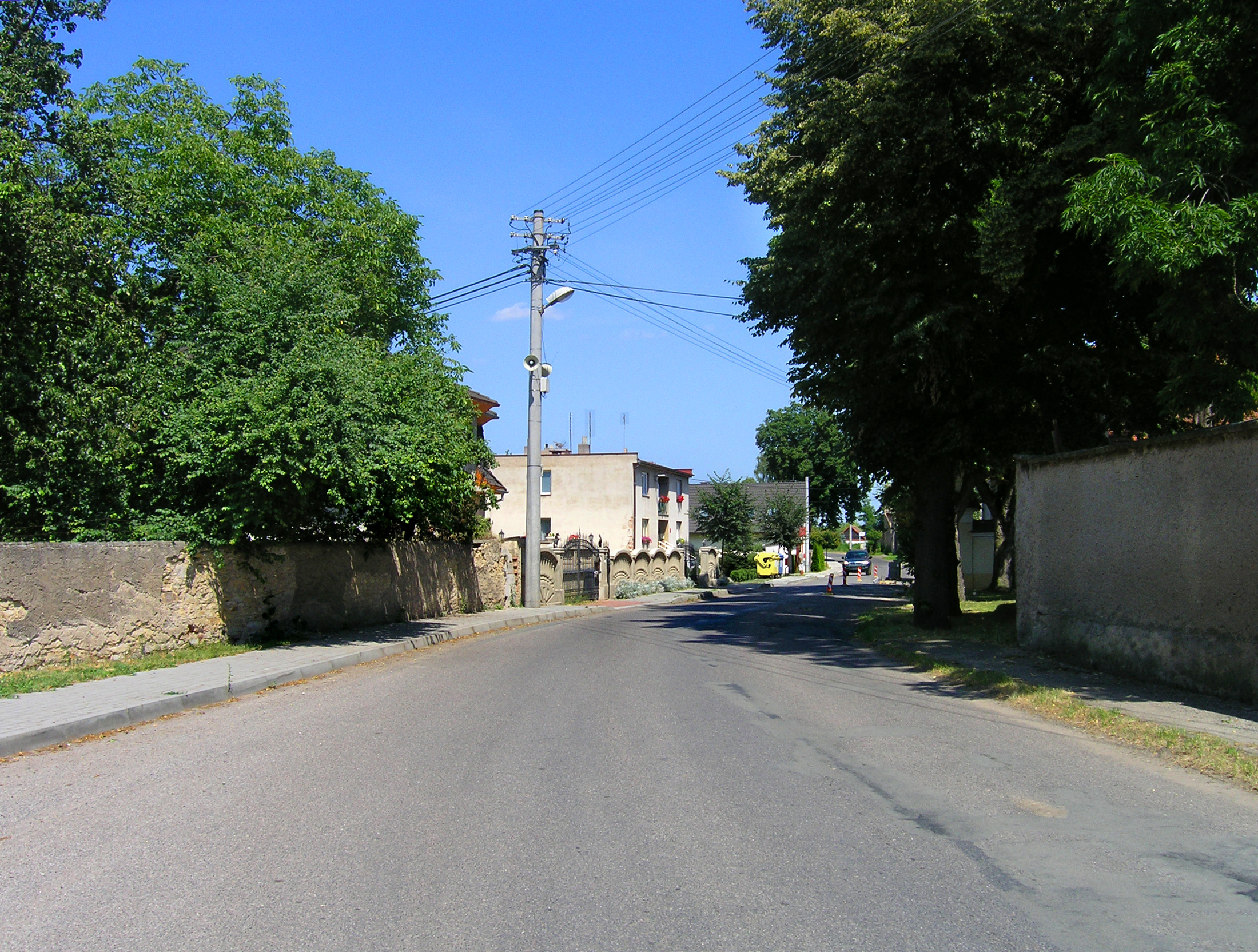 Main street in Dehtáry, part of Jenštejn village, Czech Republic